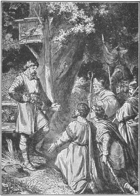 Upon king Conrad's death in 919, the crown is offered to his enemy Henry the Fowler, according to Conrad's wish, since Henry was the ablest ruler and the man who could give Saxony peace.